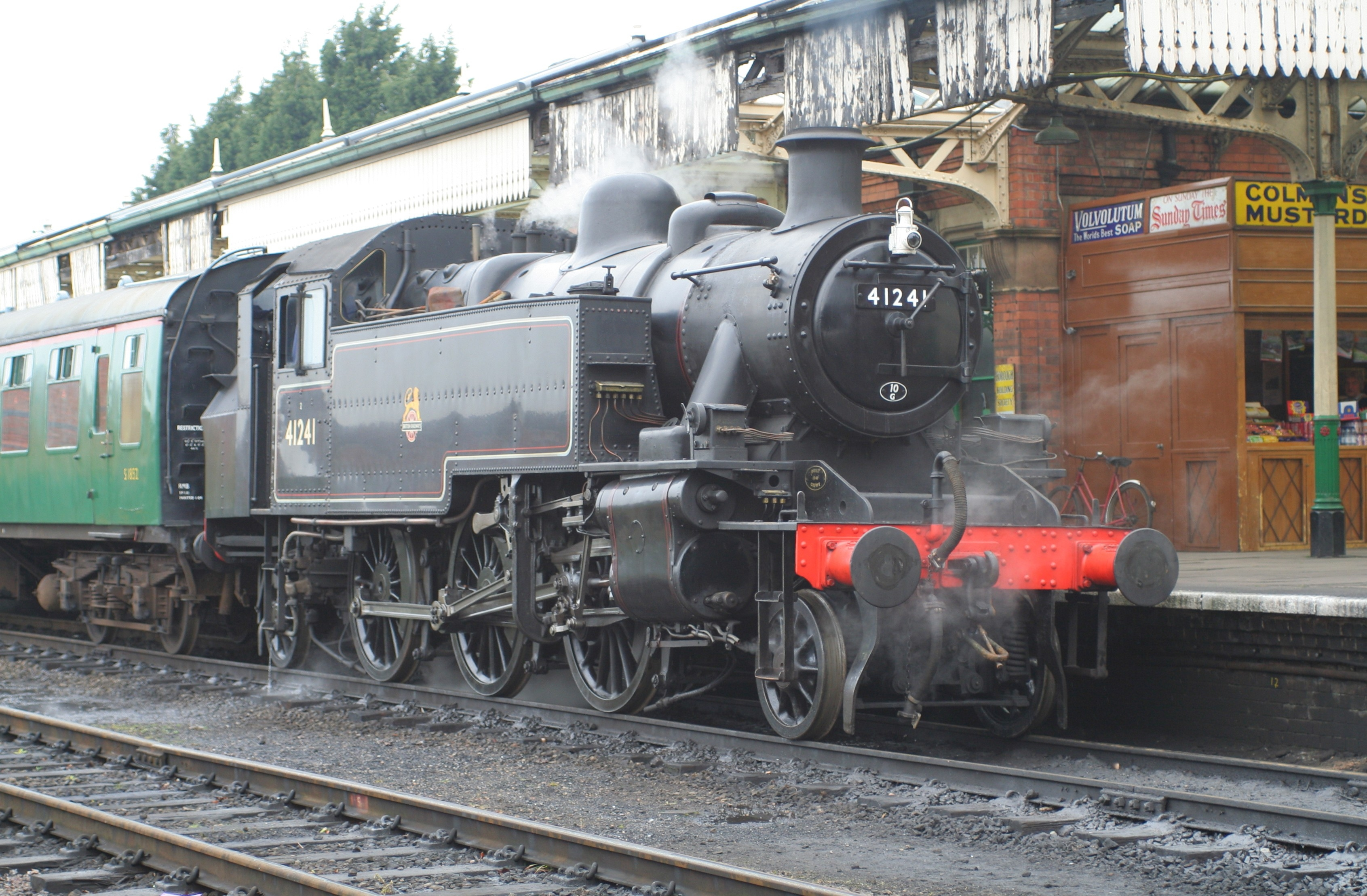 This has had a little work done to it, namely cloning out the OHLE warning flash on the side tank as I didn't think it gave enough of a period feel.